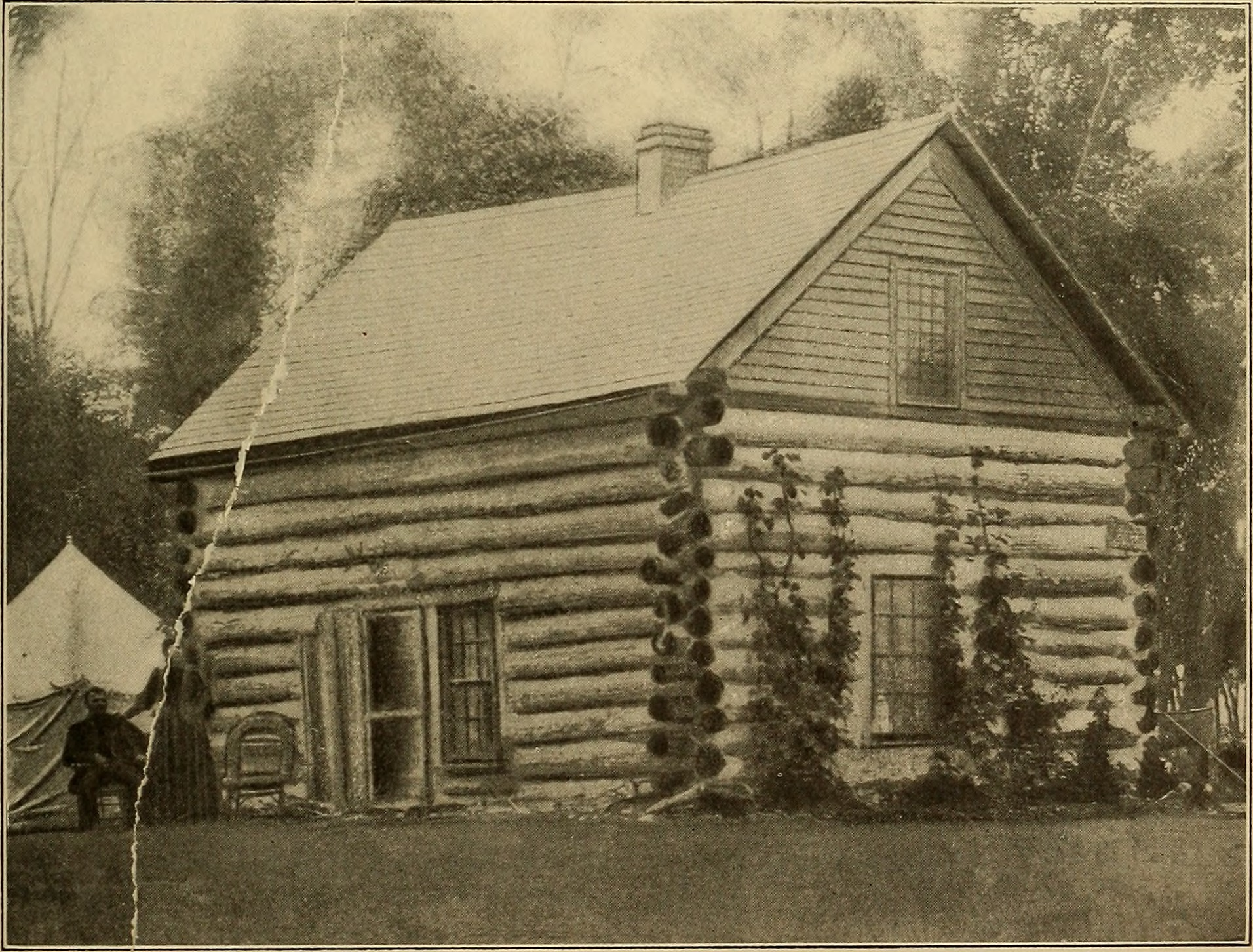 Title: Outing Year: 1885 (1880s) Authors: Subjects: Leisure Sports Travel Publisher: (New York : Outing Pub. Co.) Text Appearing Before Image: Copyrighted. Abbie Gardner Sharp who was capturedby the Indians at Spirit Lake. som on the east sideof the river in casethe price first offereddid not free AbbieGardner. At last fora consideration of twohorses, powder, blan-kets and somethingmore, the young girlwas delivered over tothe mission Indians.For their work, thethree Indians receiveda reward of $400 each.They had accomp-lished what the whitetroops could not anddid not effect, though$10,000 was spent inthe expedition fromFt. Ridgely alone.June 22d, at 6 p. m.amid cheering multi-tudes, Abbie Gardnerwas taken from herboat to a hotel in St. Text Appearing After Image: The log cabin in which the Gardner family was massacred in 1857 and where Abbie Sharp was.taken captive and has to-day retired in her old age. 6q8 The Outing Magazine Paul. She joined asister who had beenaway during the timeof the massacre andin late years has livedon the old homesteadat Okoboji. Ink-pa-duta hadjudged human nature—especially humannature as exemplifiedin democracy—right-ly. He had commit-ted a great crime, andhe escaped punish-ment, and he washeard of again in theIndian wars. At thefamous Custer mas-sacre of a late day,as the white troopswere riding andcheering and flourish-ing their swords downthe bank to the riverbottom, an Indian was seen sitting fishingat the water side. The Indian gave thesignal to the other ambushed Sioux, thatsounded Custers death knell. The fisher-man was Ink-pa-duta. After the first wildhurrah for action had vapored off in fail-ure, the Government troops did absolutelynothing to follow up and punish the out-laws. It had come to the Governm